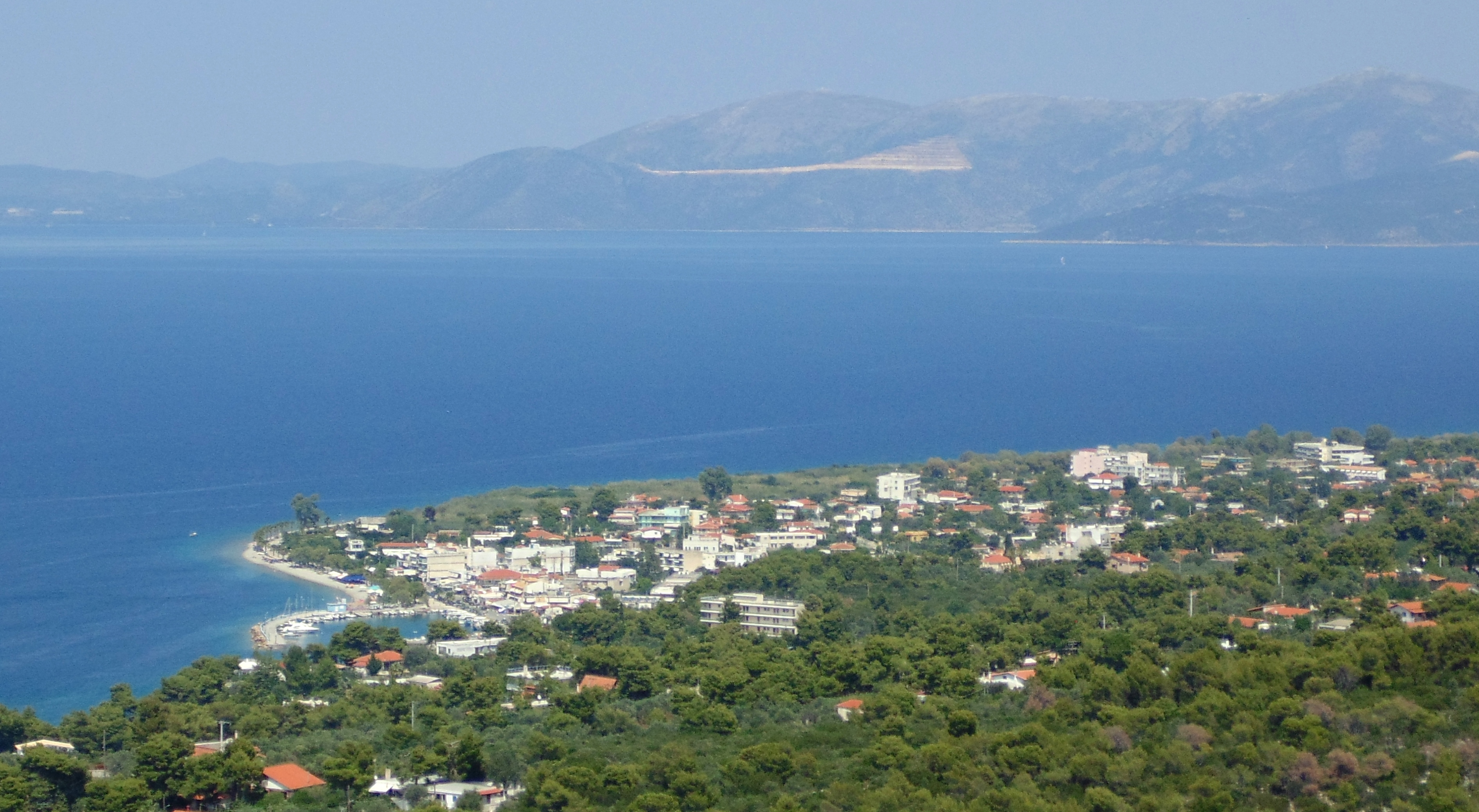 Agioi Apostoloi (Attica)